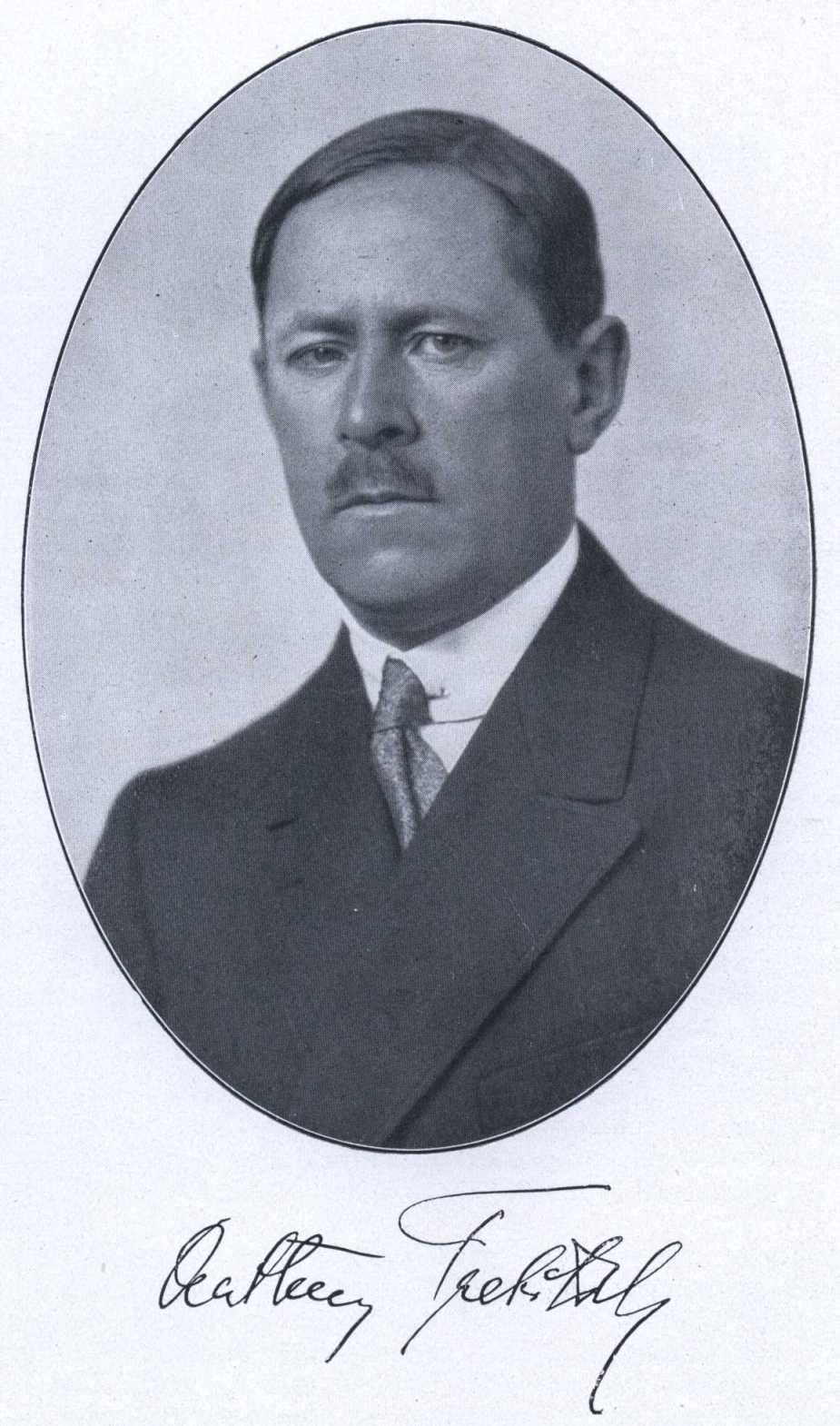 Arthur Trebitsch (1926)